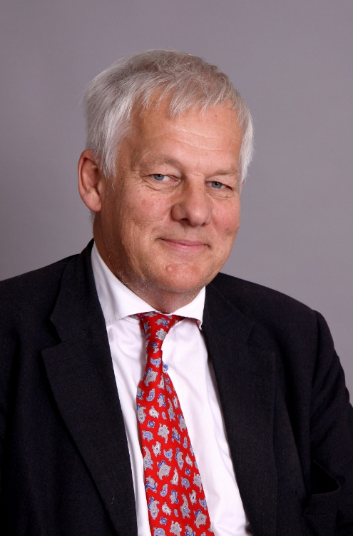 Headshot of Tomas Albrektsson, internationally known dental implant researcher.